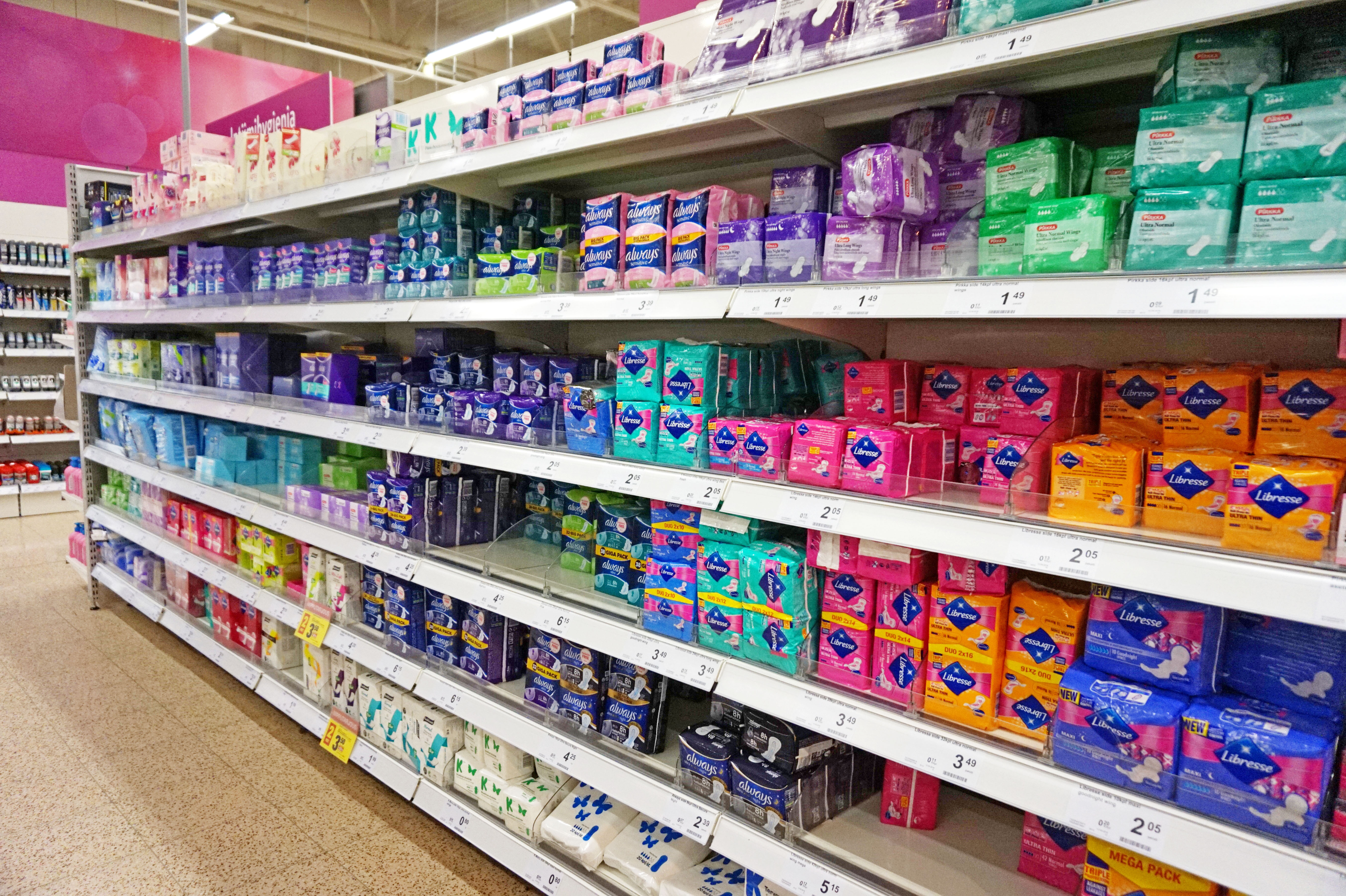 Sanitary towels in Citymarket, Jyväskylä.This photograph was taken with a Sony ILCE-5000